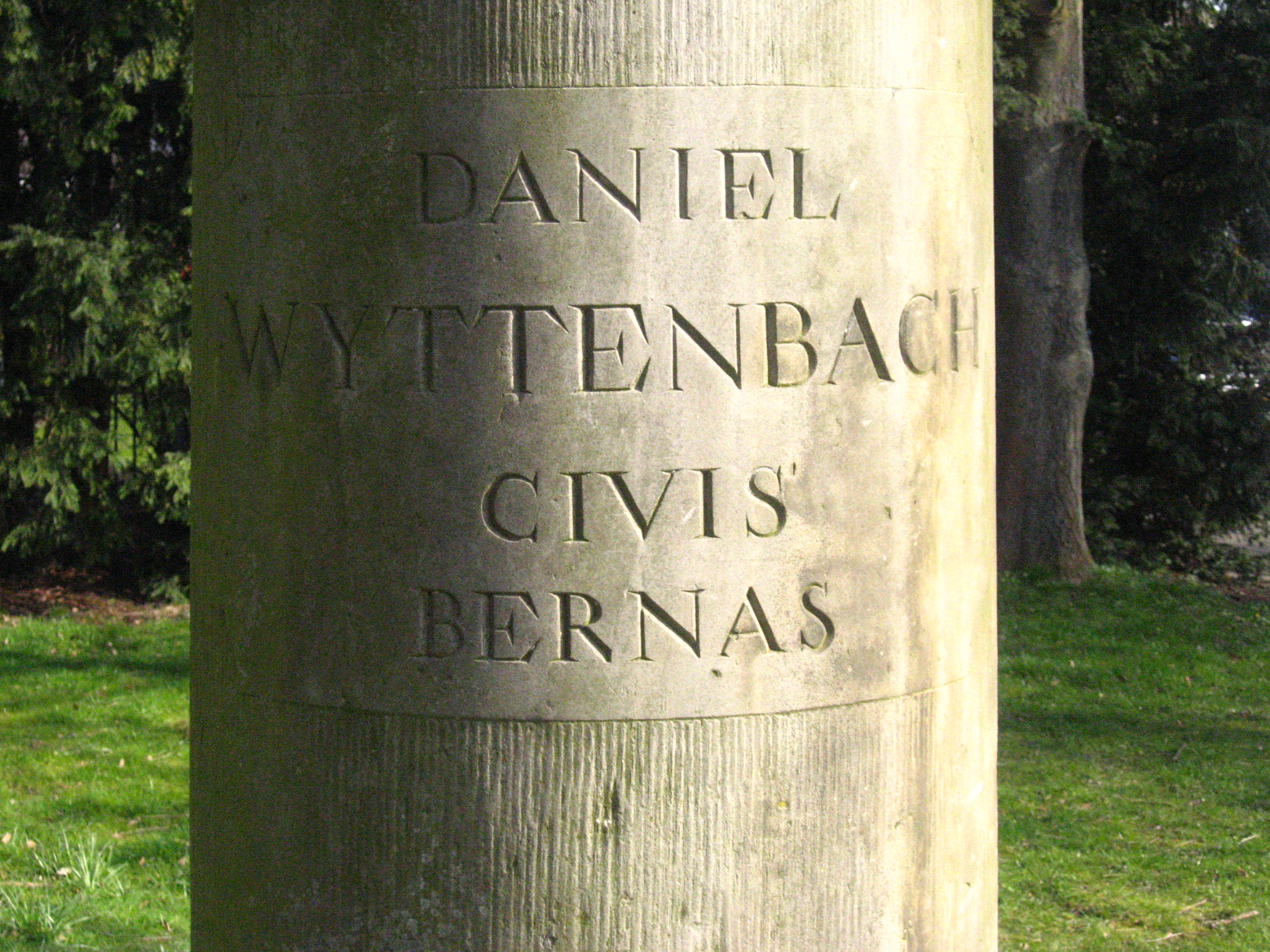 Broken column indicating the home of Wyttenbach in Oegstgeest. Inscription reads: "Daniel Wyttenbach civis Bernas".